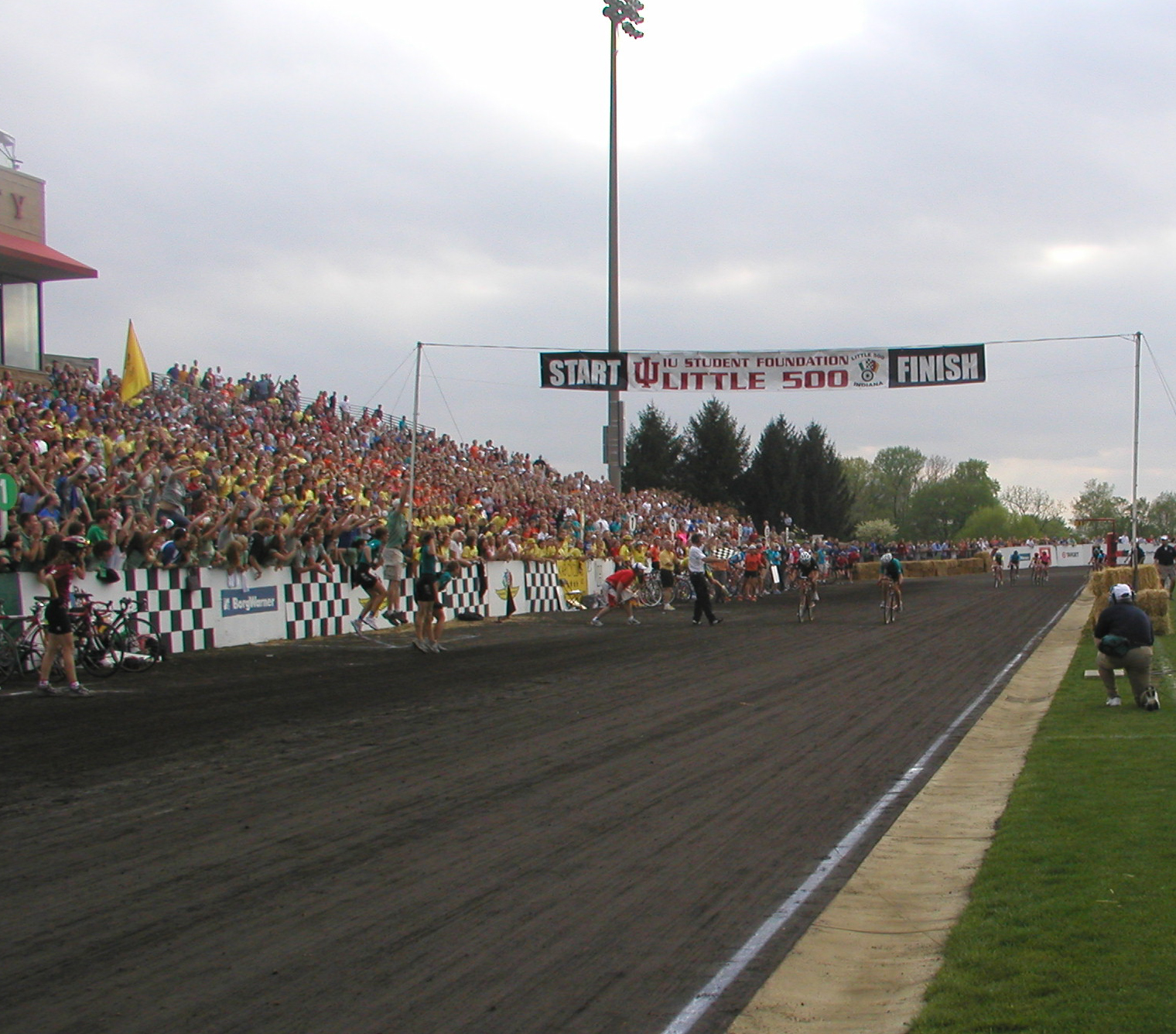 A near photo finish at the 2004 Women's Little 500 at Indiana University Bloomington. The rider on the right in the green jersey won, and the team can be celebrating from their pit. Photo taken in April, 2004 by User:Durin-en.